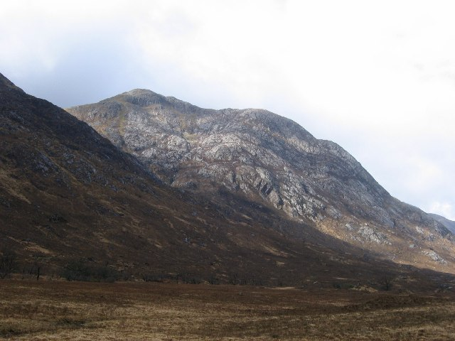 Beinn Bheag above Glen Gour. Looking across the glen from NM938647 to Beinn Bheag(736m)